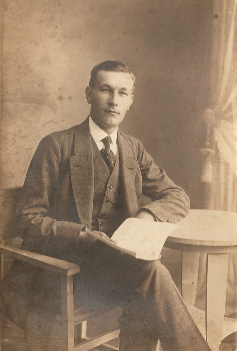 Stanislaw Tomasik. Photo made in 1930-34 in the photo studio in Oświęcim, which was closed down by Germans in 1939.